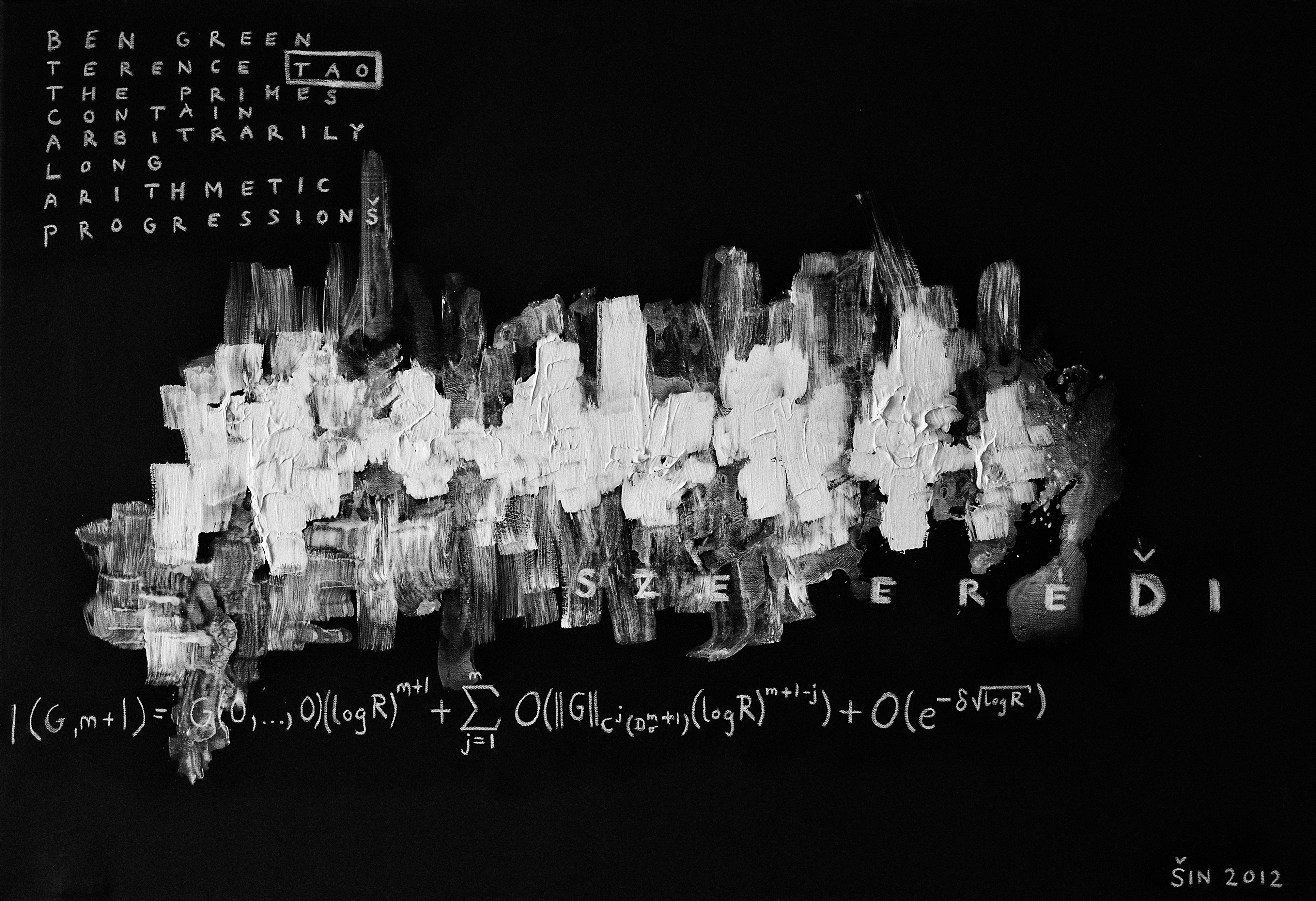 Green-Tao Theorem with Endre Szemeredi by Oliver Sin 110X160cm, acrylics and oil pastels on canvas, 2012